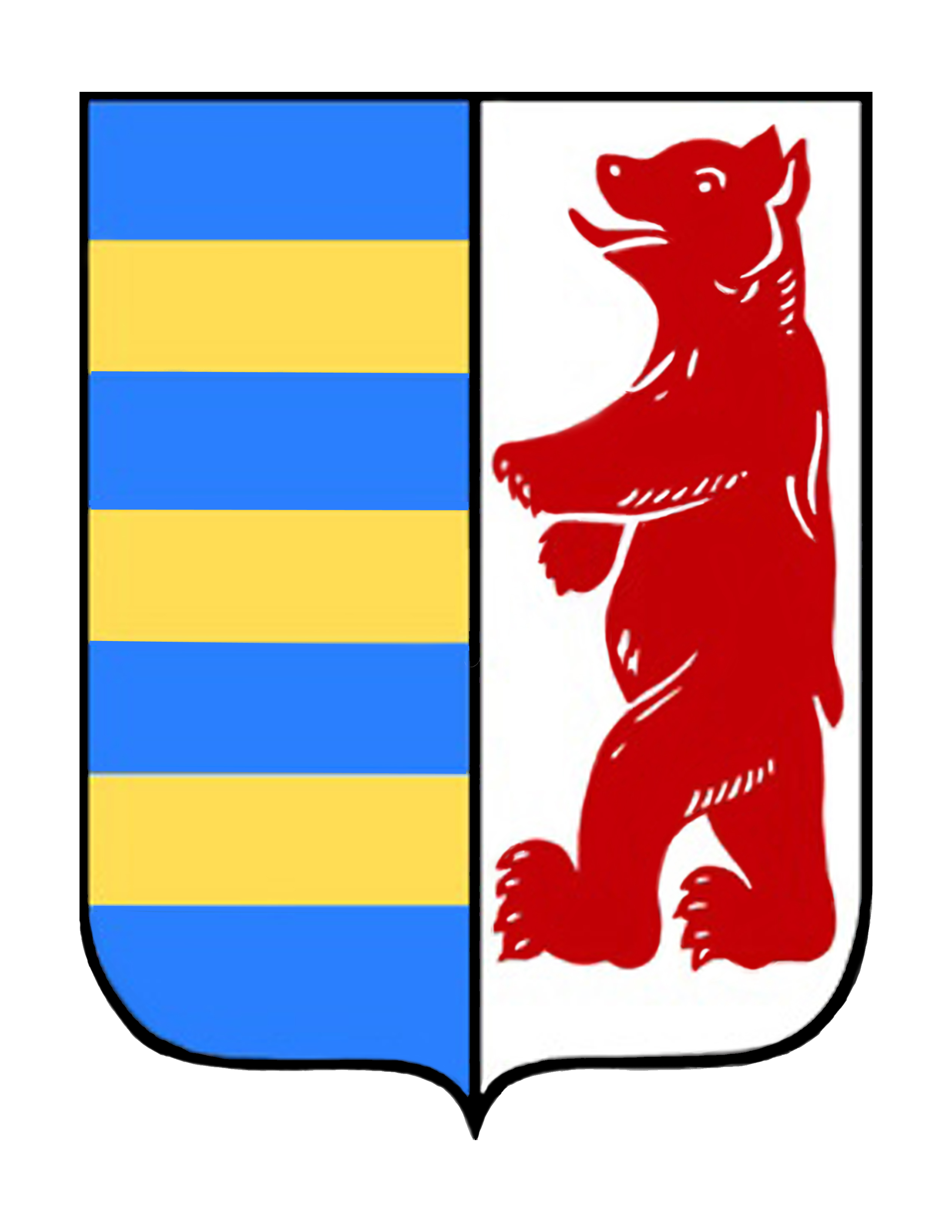 Symbol of C-RS with motto 'manifesting Rusyn culture and history